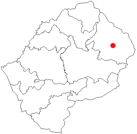 Mokhotlong, Lesotho Location Map; created with the GIMP. Made by User:Acntx.